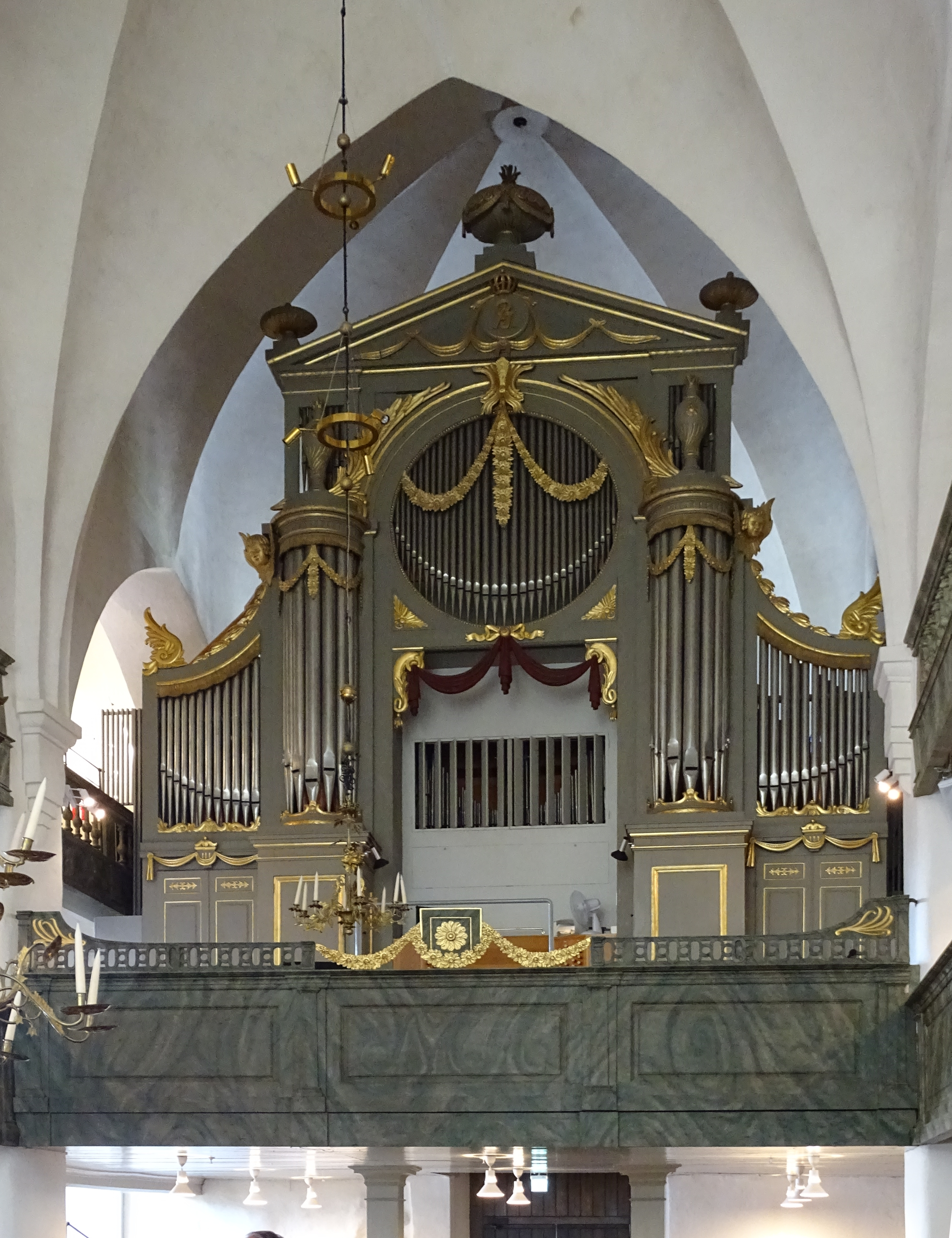 Interior of Porvoo cathedral, a cathedral of the Evangelical Lutheran Church of Finland in Porvoo, Finland.